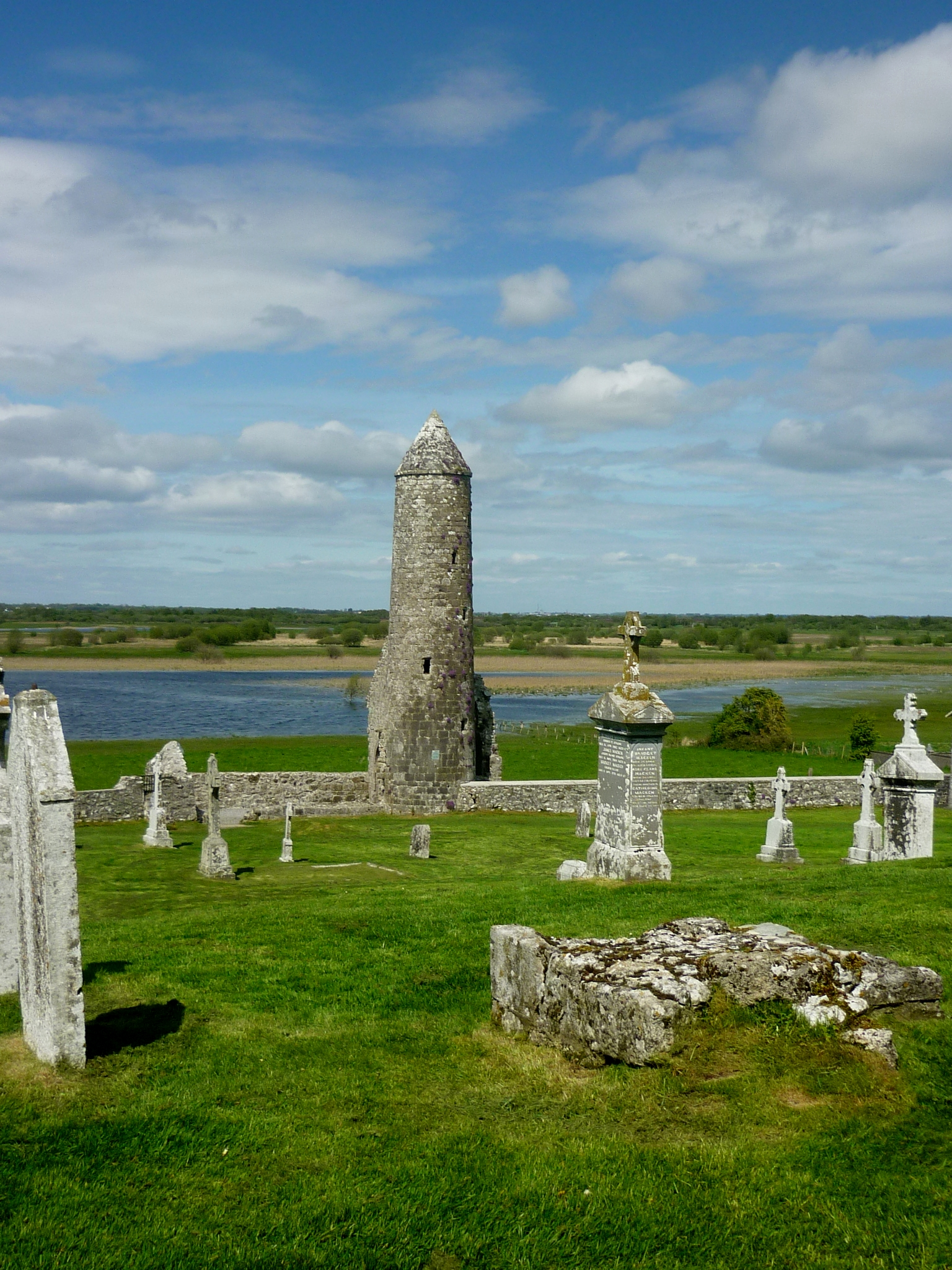 Clonmacnoise monastery